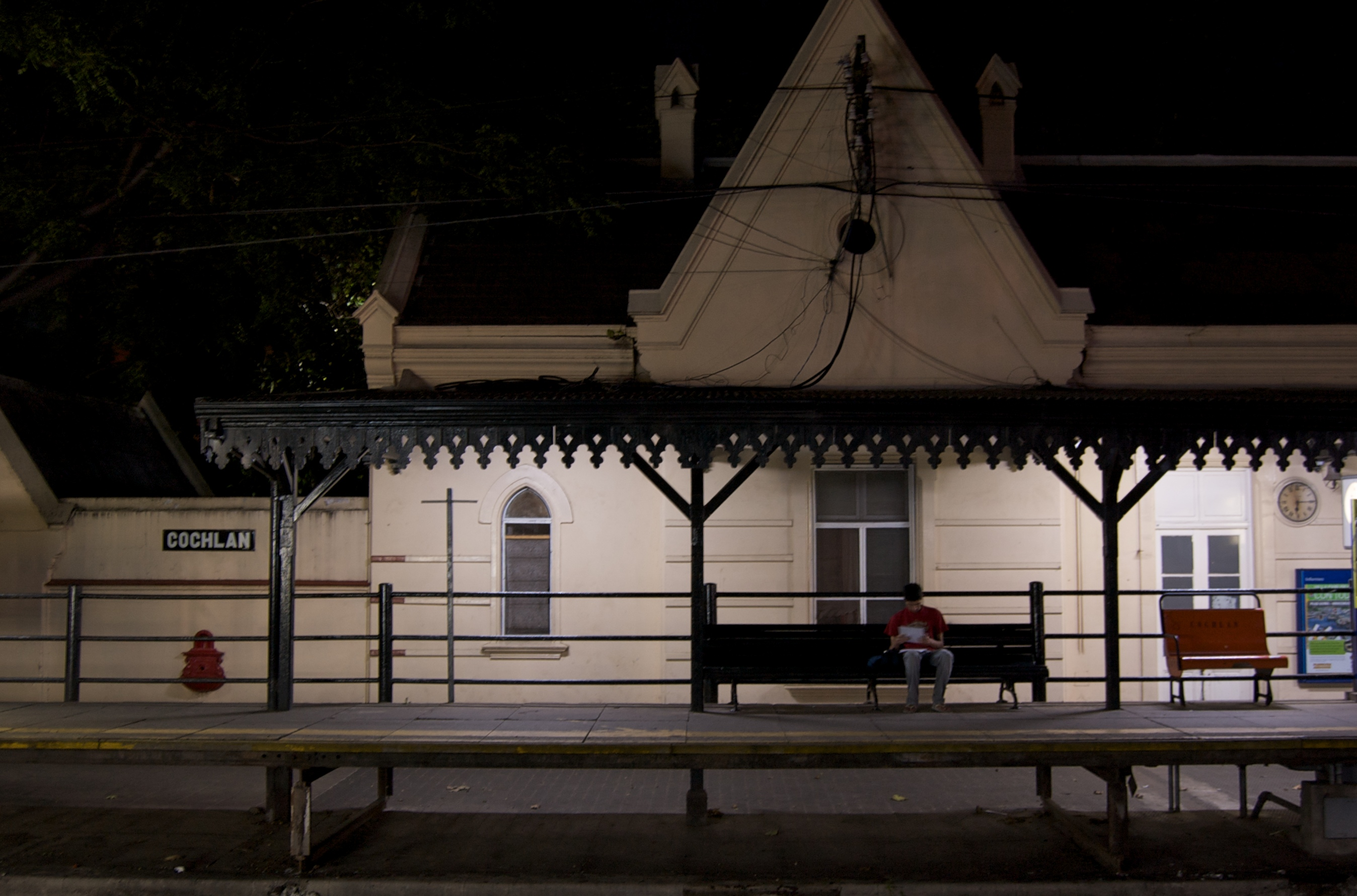 Reminiscent of British stations